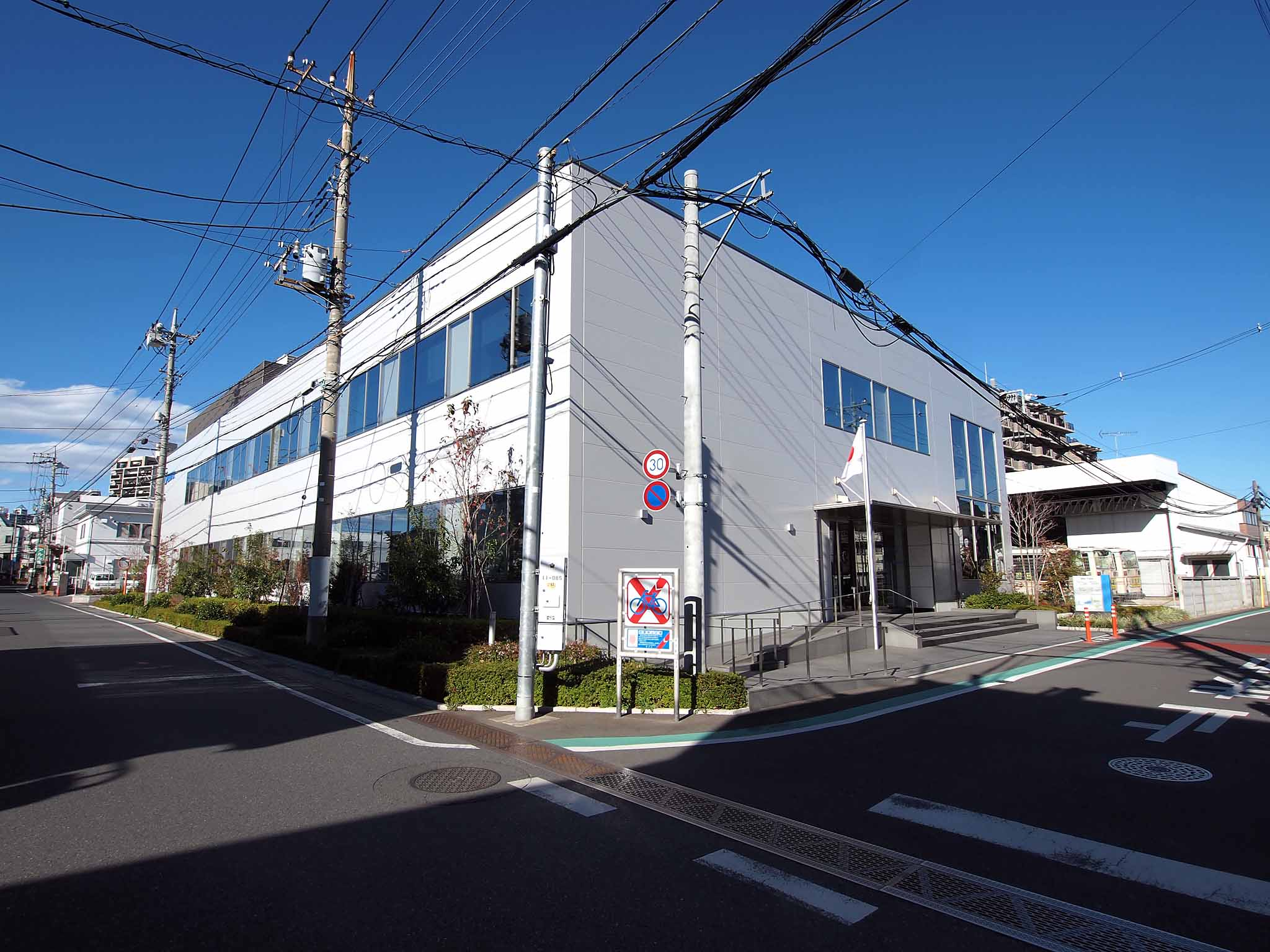 Head office of Seibu Bus Group, view from east: main entrance side.